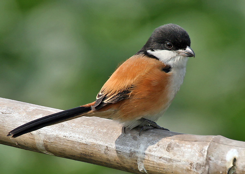 Long-tailed Shrike Lanius schach in Kolkata, West Bengal, India.